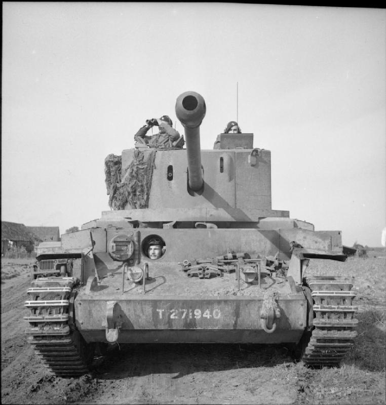 The British Army in North-west Europe 1944-45 Challenger tank of 15/19th Hussars, 11th Armoured Division, Holland, 17 October 1944.